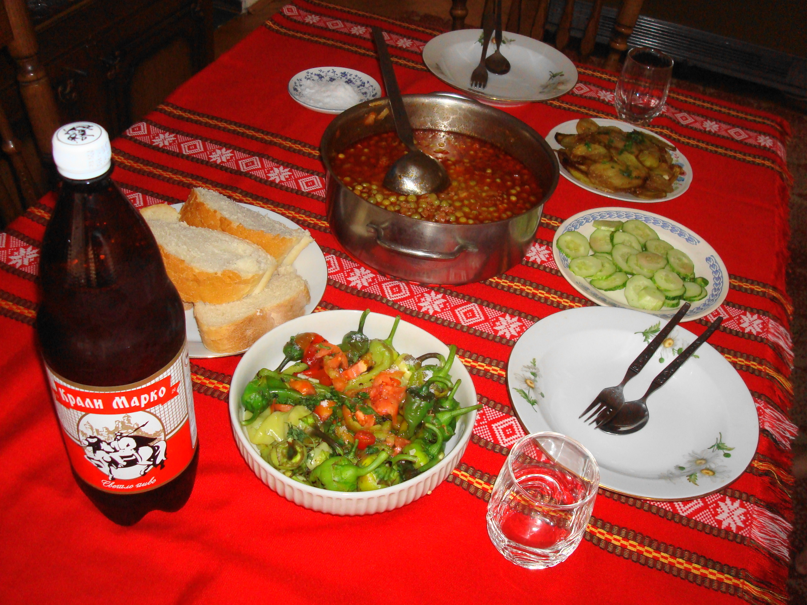 Macedonian cuisine.